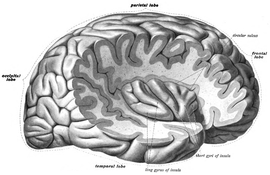 An anatomical illustration from the 1908 edition of Sobotta's Anatomy Atlas